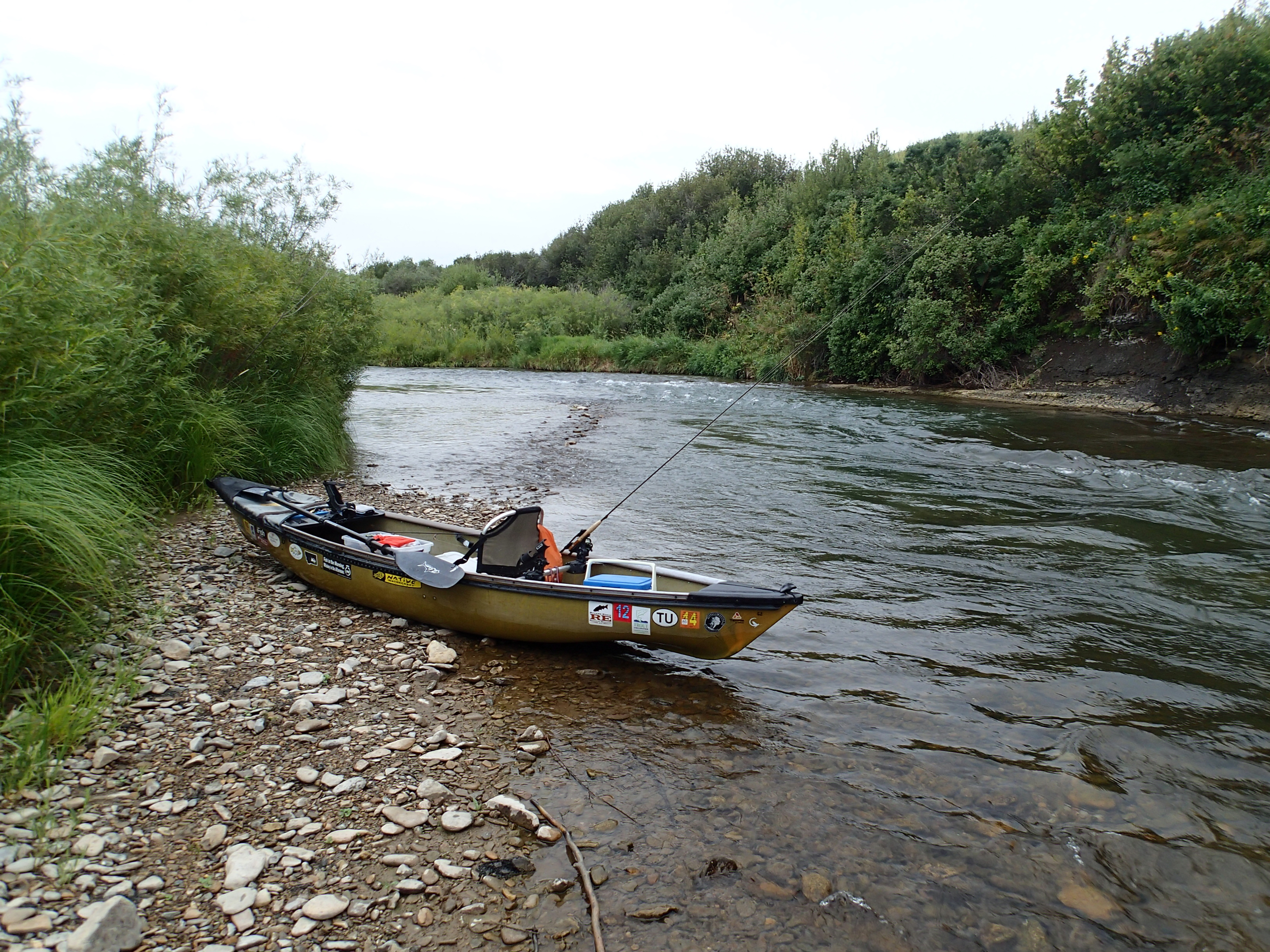 Big Spring Creek, near Lewistown, Montana